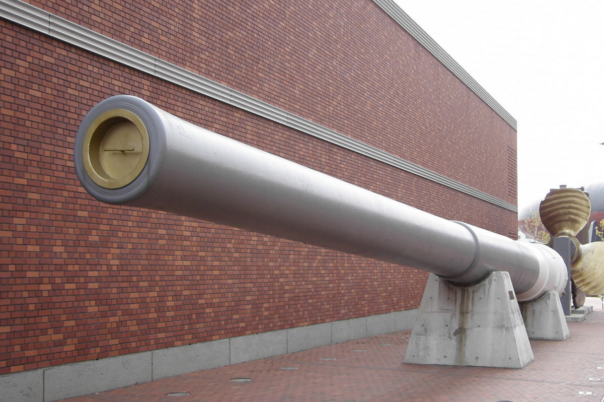 Photograph of 41 cm naval gun, the left gun of No. 4 turret of Japanese battleship Mutsu, at the Yamato Museum, Kure, Hiroshima, Japan. Behind the gun is seen one of Mutsu's propellers.